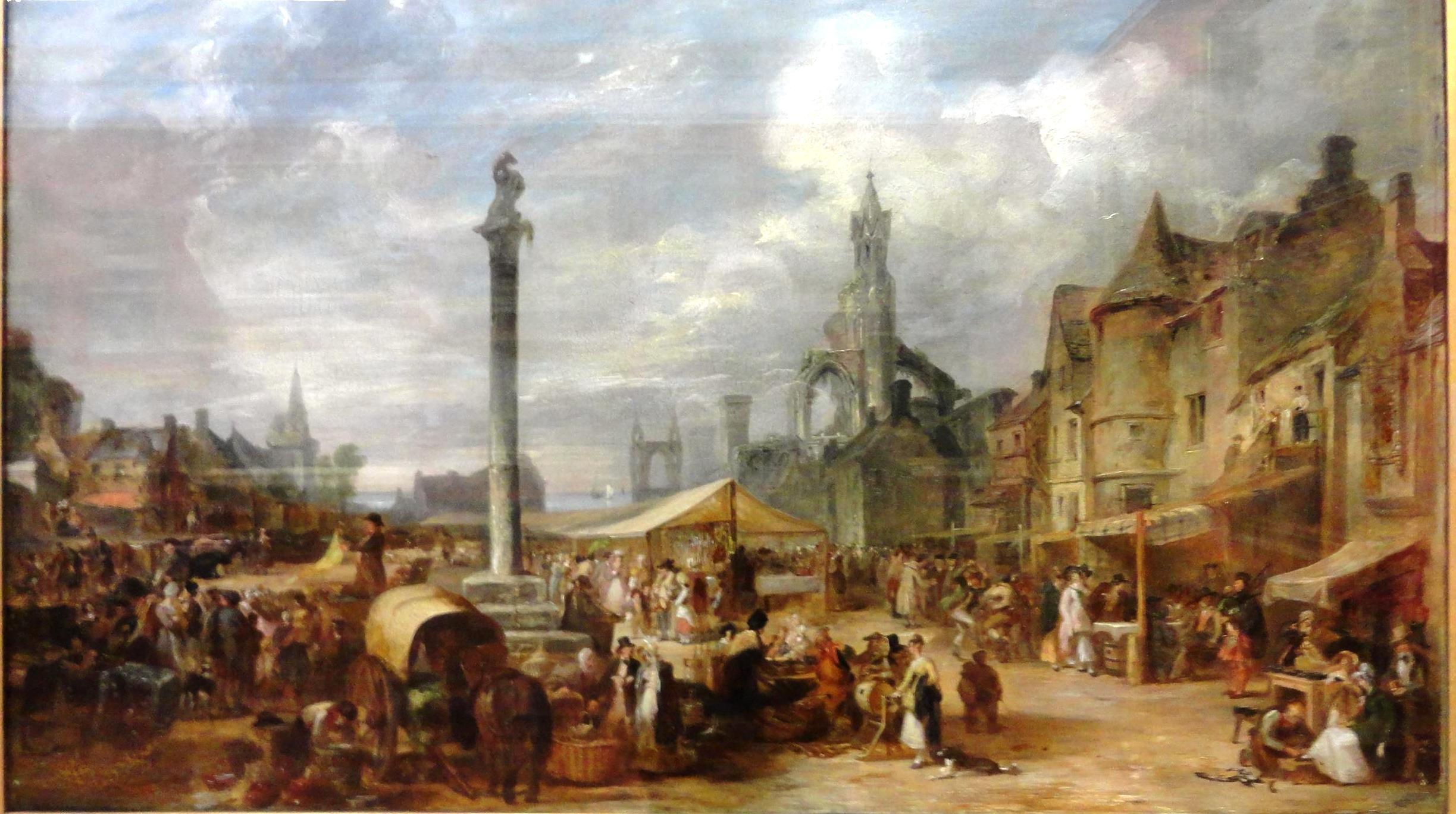 The painting is by Alexander George Fraser (1786-1865). It is a collage of features to be found in St. Andrews, St. Monans etc.